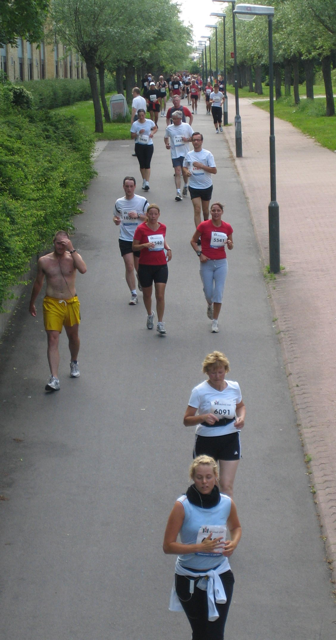 Participants in the half marathon Broloppet in Malmö, Sweden